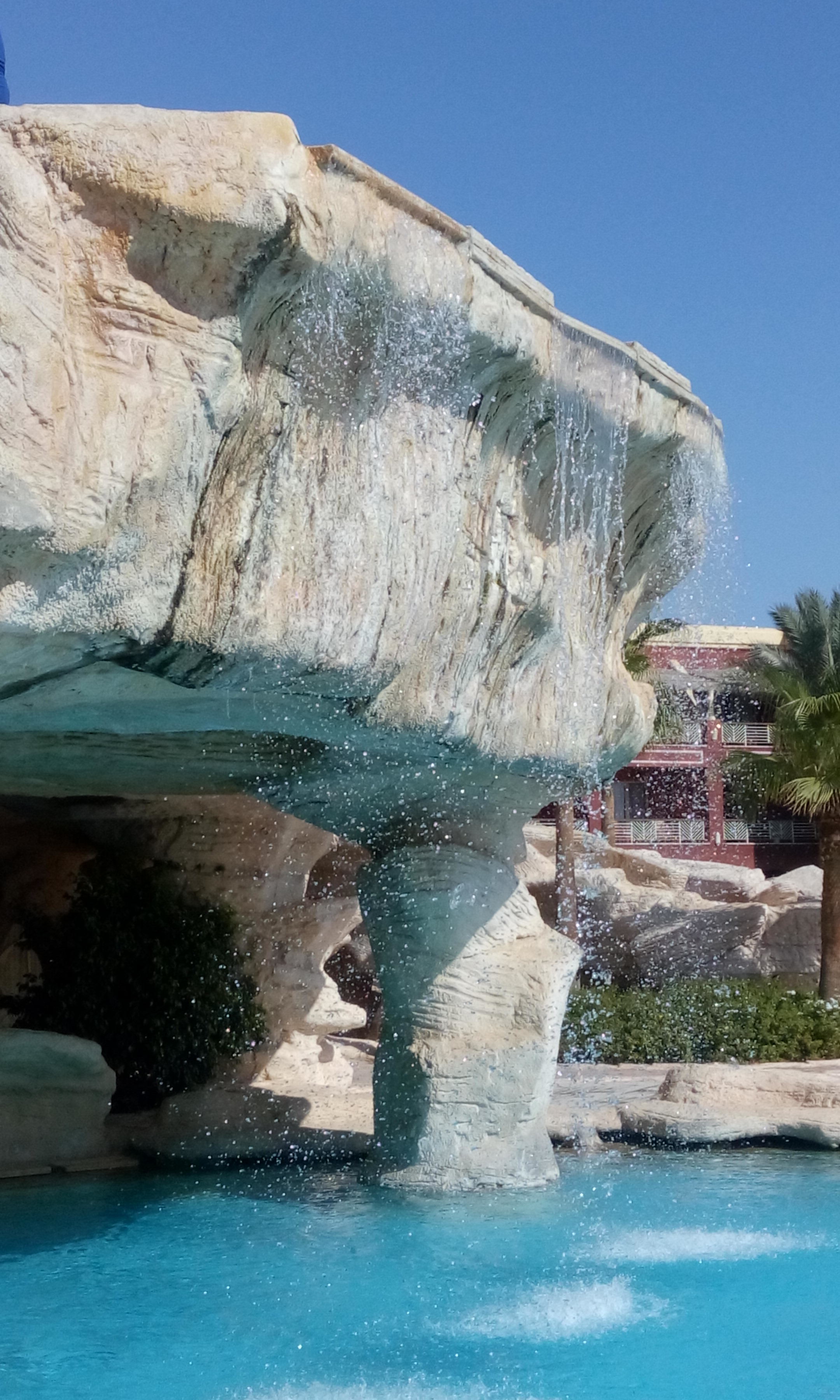 Artificial waterfall in Sharm el-Sheikh